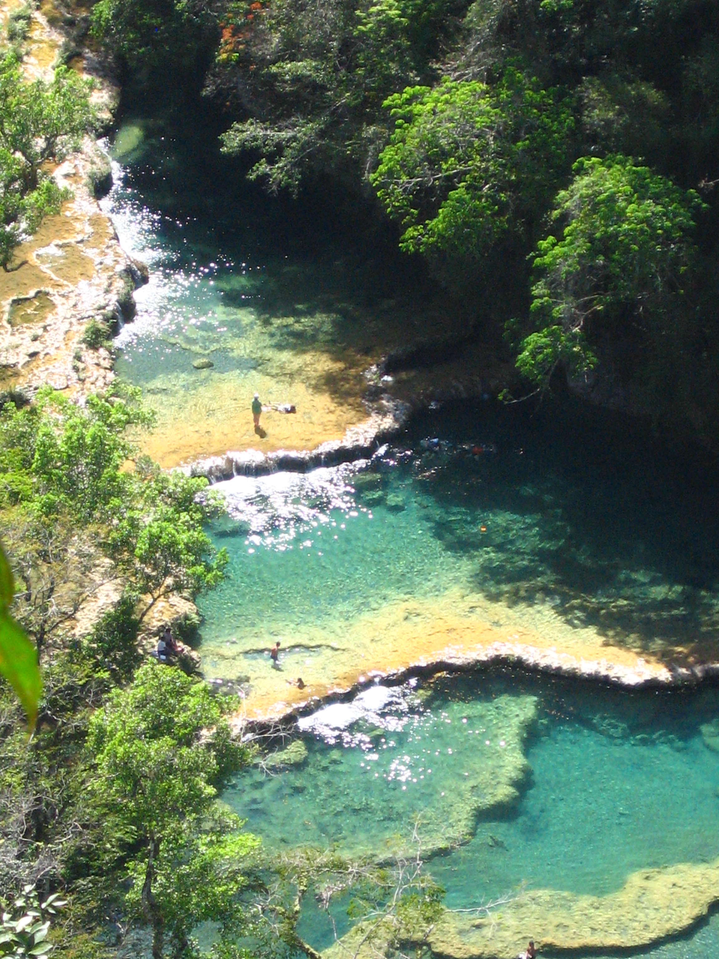 Waterfall in Lanquin